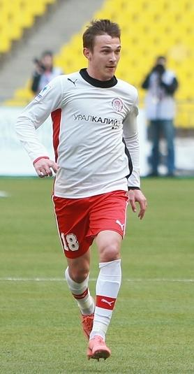 Nikita Burmistov with FC Amkar Perm in 2013.